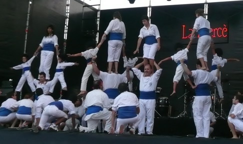 Falcons de Vilanova in Barcelona